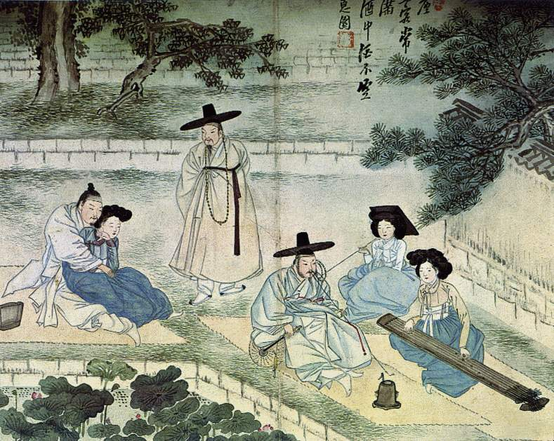 “Resounding geomungo, praiseworthy lotus” (translit. title:Cheonggeum sangryeon) from Hyewon pungsokdo held by Gansong Art Museum in Seoul, South Korea